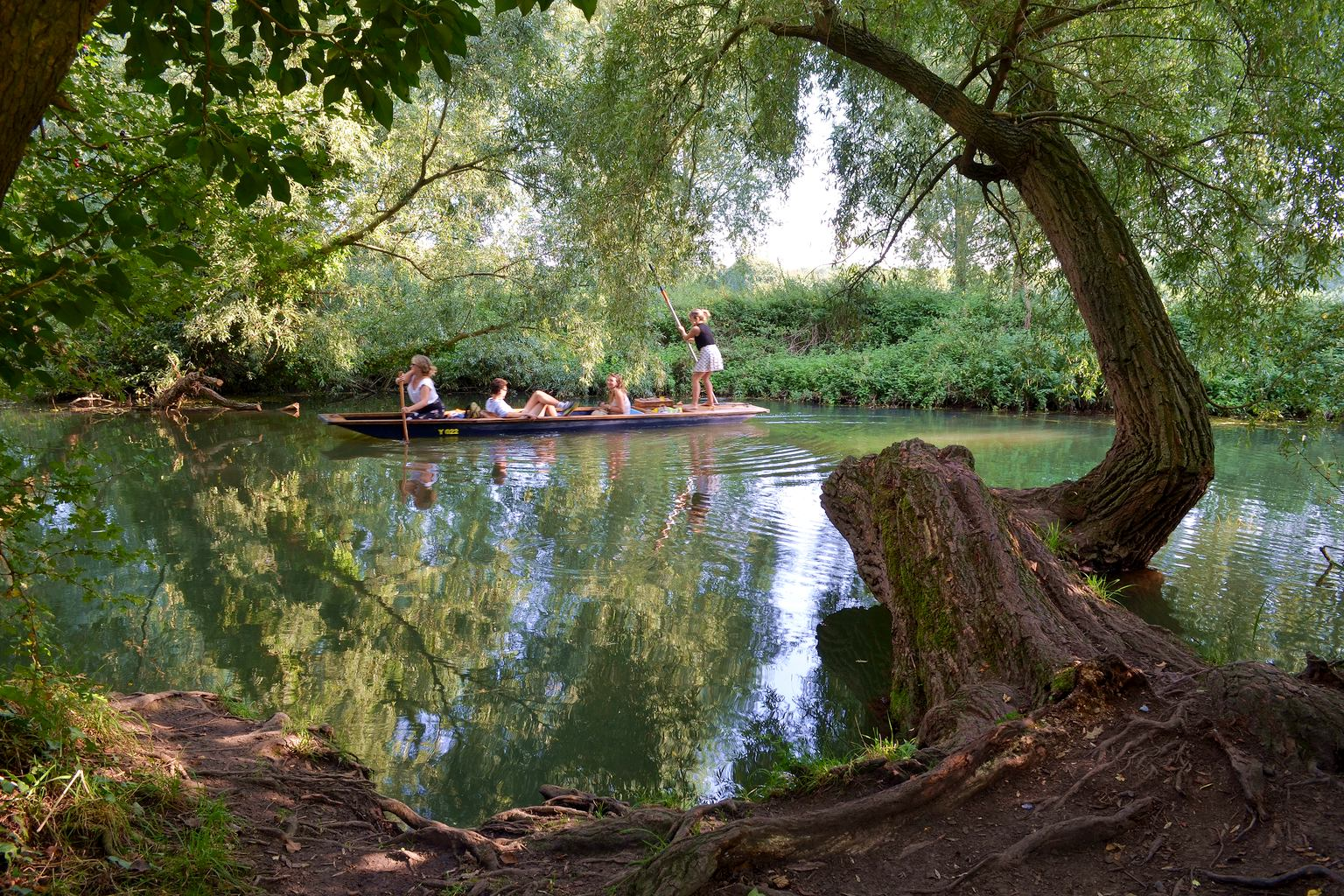 A punt on the River Cam passing by the Paradise Local Nature Reserve in September 2014.